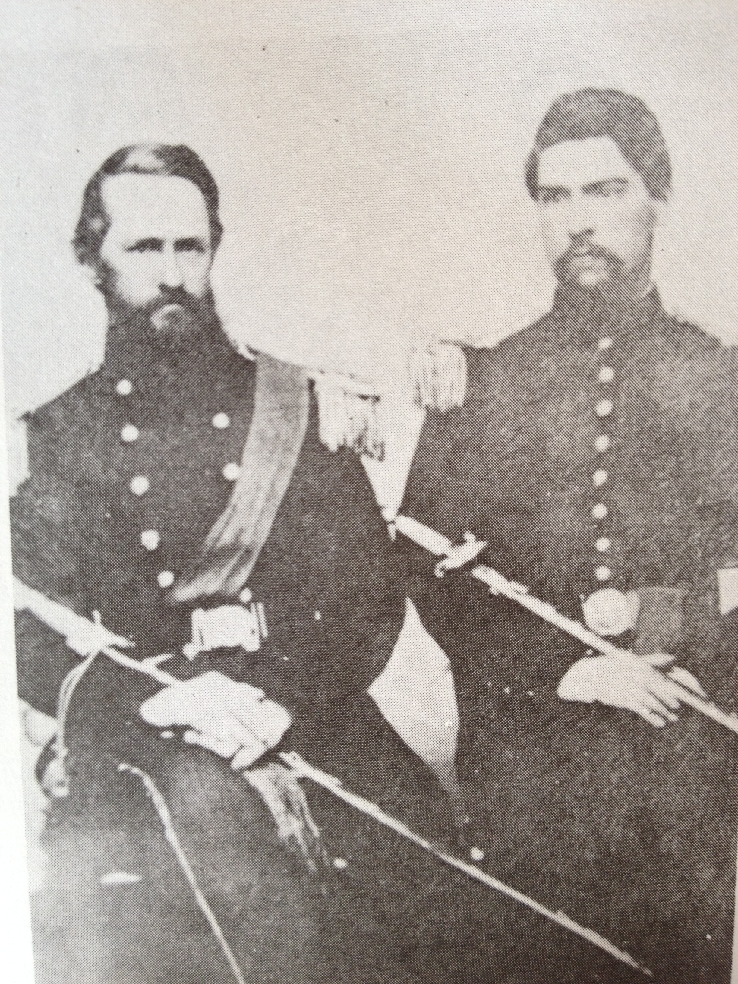 Colonel D. A. Weisiger on left, with Lt. Louis Leoferick Marks in 1860. Both are wearing Virginia State Militia uniforms.